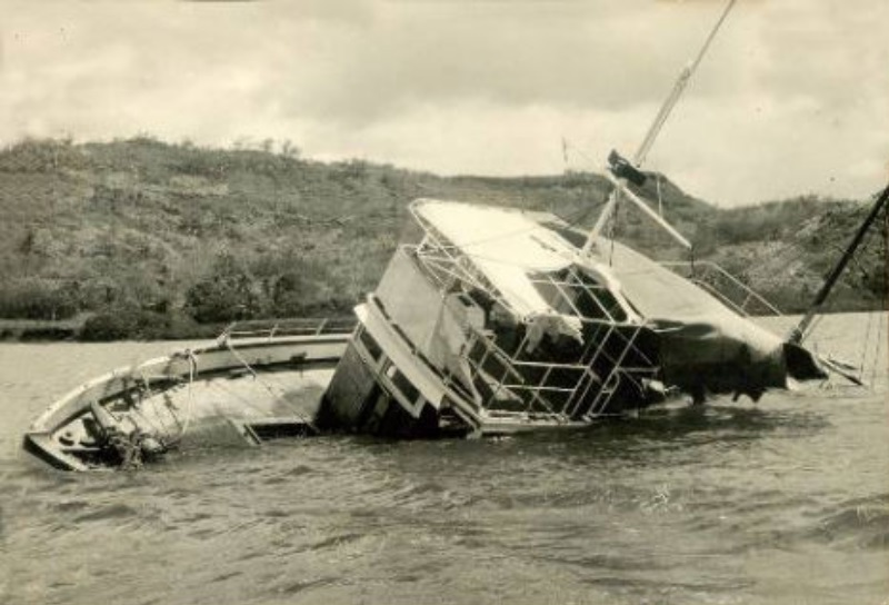 MV Joyita towed on shore after found drifted 1955 partially submerged and listing heavily to port side.